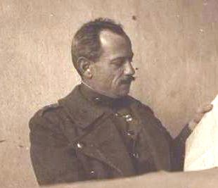 Greek colonel Constantinos Tsakalos (1882-1922), hero of Asia Minor campaign.